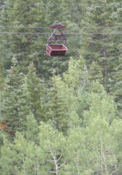 Ore bucket on the aerial tramway from the Mayflower mine, near Silverton, Colorado, USA